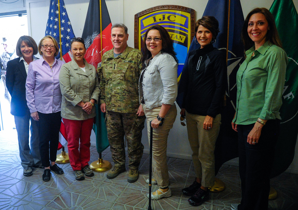 Tammy Duckworth with the other members of the delegation, Representative Martha Roby, Congresswoman Susan Davis, Congresswoman Niki Tsongas, Jaime Herrera Beutler, and Representative Kristi Noem